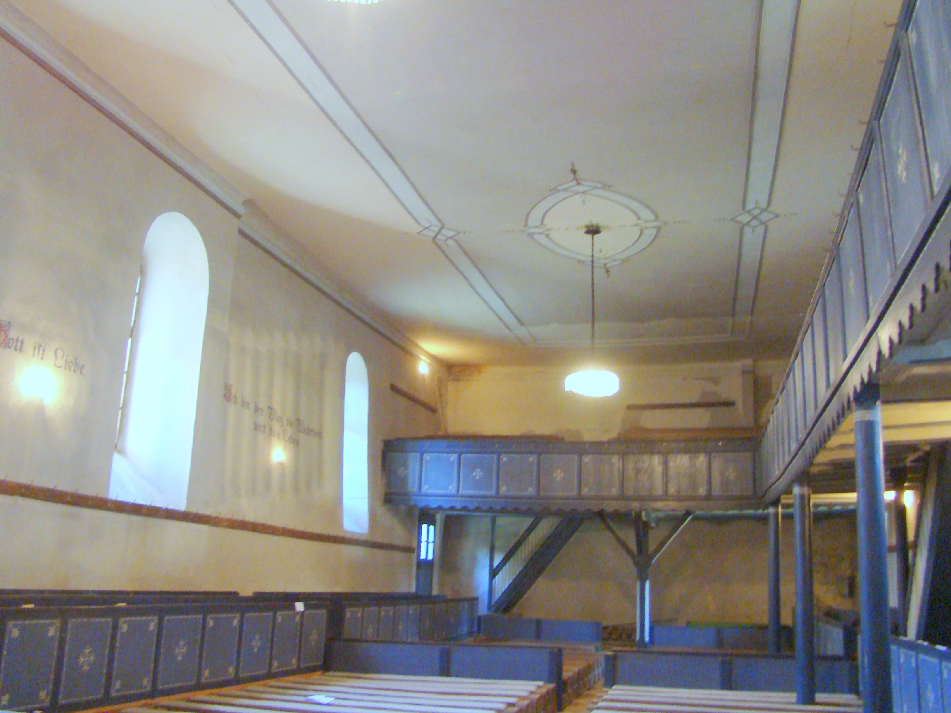 Fortified church in Măieruș, Brașov County, Romania